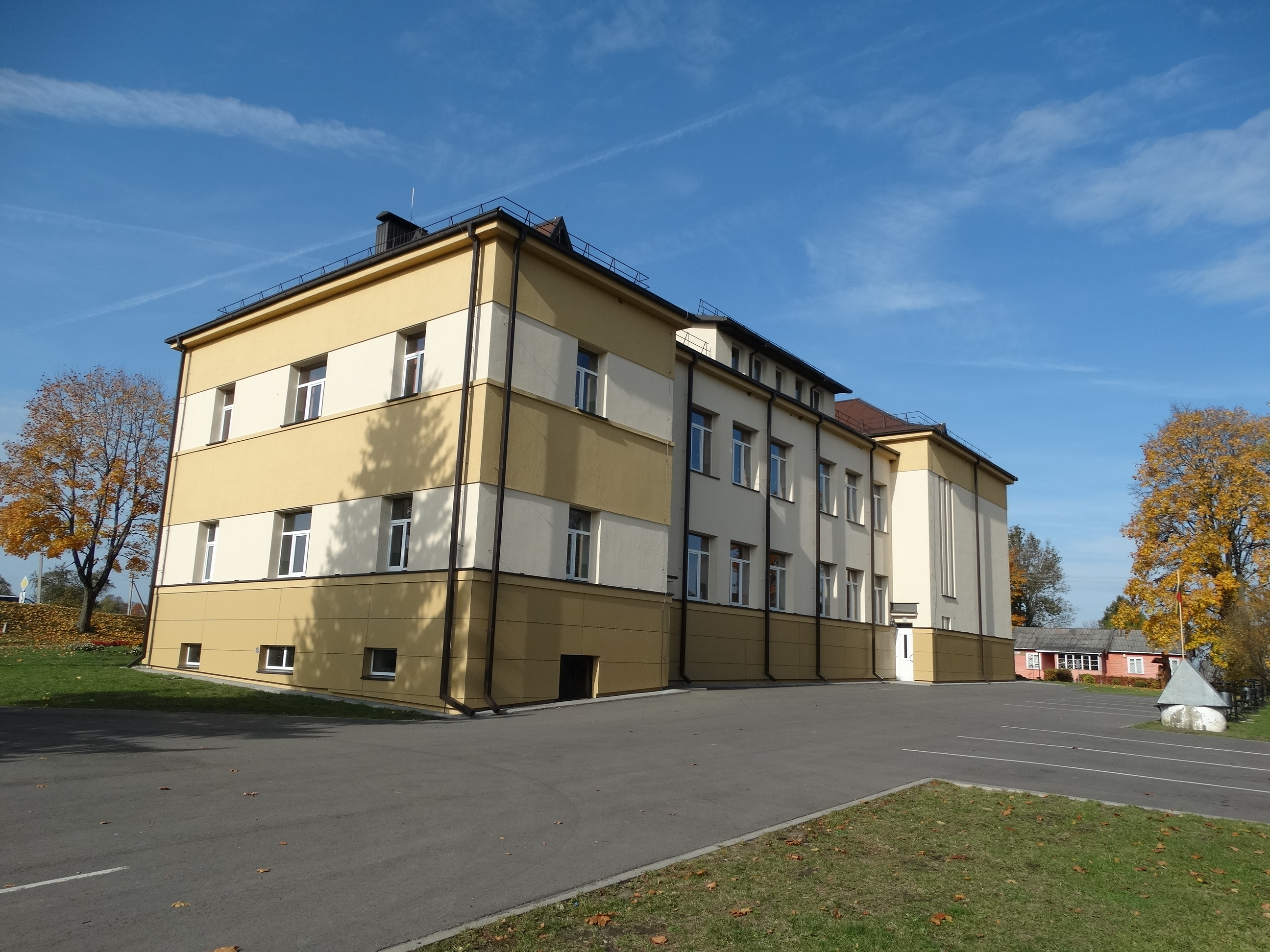 School, Šventežeris, Lazdijai district, Lithuania